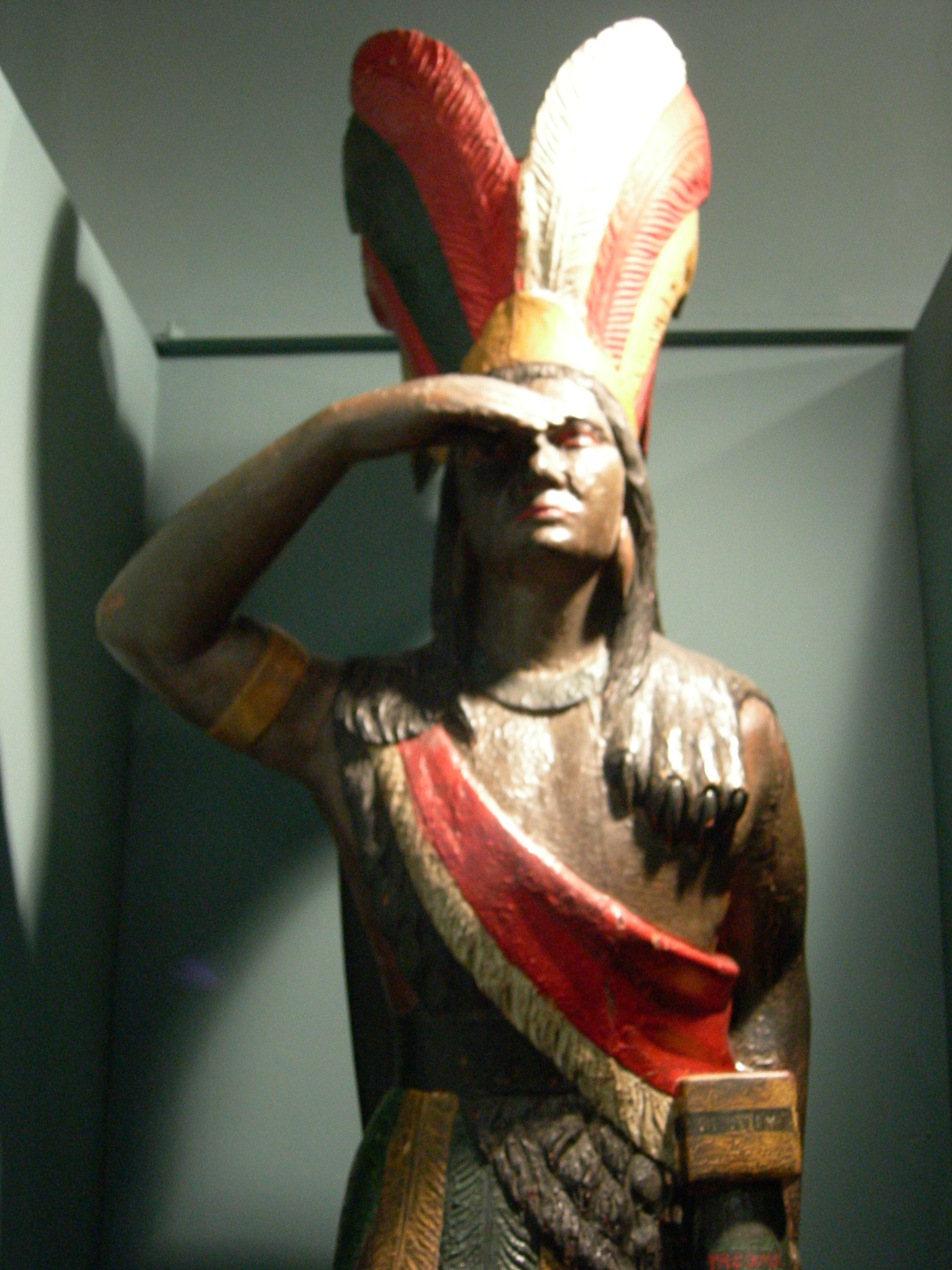 Cigar store Indian, mid-19th century. Originally in front of a downtown Seattle store, now in Museum of History and Industry (MOHAI), Seattle, Washington.